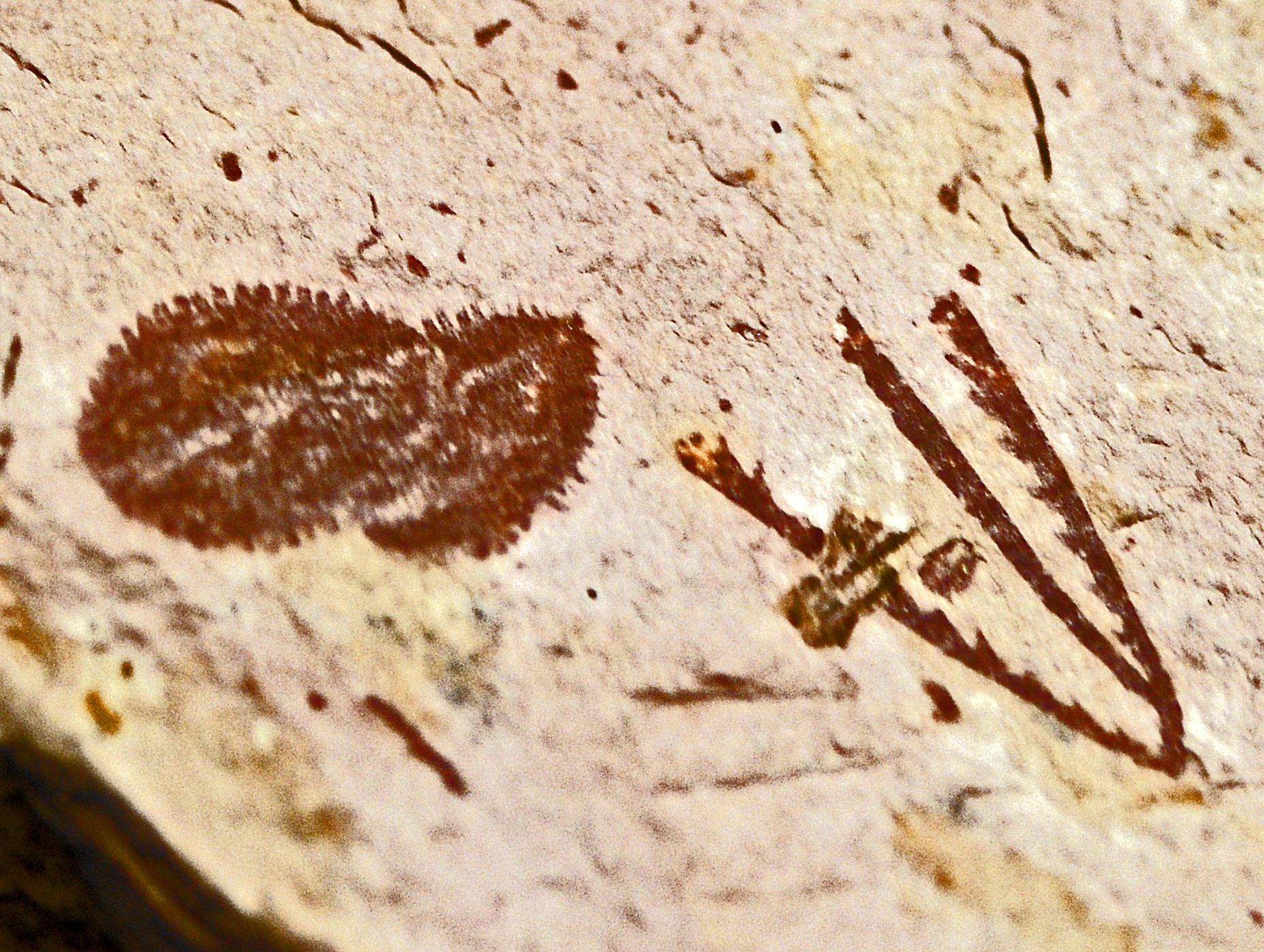 Phyllograptus species. On display at the Museo Civico di Storia Naturale di Milano